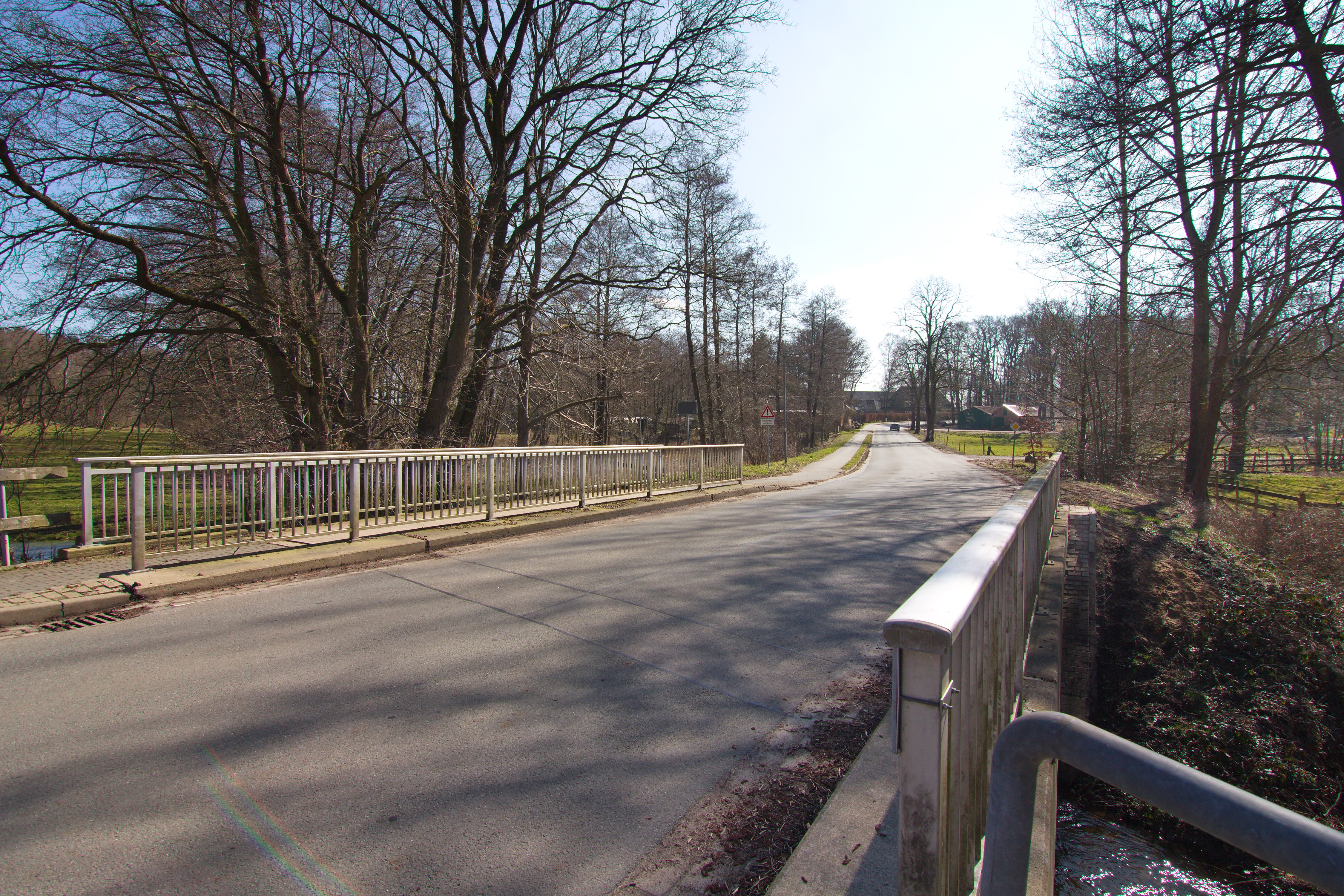 Brunaubrücke in Borstel (Bispingen), Niedersachsen, Deutschland.